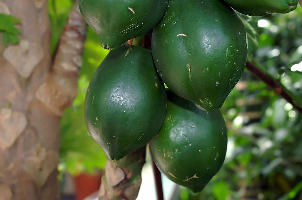 Location taken: United States Botanic Garden. Names: Carica papaya L., Aɖiba, Babaay, Betek, Betik, Bofere, Doeum Lahong, Dudu, Fan Mu Gua, Fruta Bomba, Gedang, Gedang (Indonesia), Hashkʼaan dootłʼizhí (babáayah), Houng, Ihong, Ipapaya, Kapaya, Katès, Kates (Indonesian), Ketalah, Lapaya, Lechosa, Lesi, Loko, Ma Kuai Thet, Malako, Malakor, Mamão, Mamón, Mamão, Mamao (Brazil), Mamon, Melón Zapote, Meloenboom, Melon tree, Melonenbaum, Melonowiec właściwy, Melontræ, Melontræ, Mpapai, Olcoctón, Pa Pa Ya, Papaia, Papaier, Papaija, Papaio, Papaiya, Papaja, Papája melónová, Papajabaum, Papajapflanze, Papajinis melionmedis, Papajo, Papanajo, Papay, Papaya, Papaya (Indonesia), Papaya Calentana, Papayabaum, Papaye, Papayer, Papayero, Papayo, Papiitaa, Pappali, Paw Paw, Pawpaw, Payipayi, Pepaya, Popoo, Qovunağacı, Sa Kui Se, Thimbaw, Tree Melon, Weleti, Đu đủ, Παπάγια, Дыннае дрэва, Папайя, Папая, Պապայա, פפאיה, بابايا, پاپایا, پپیتا, पपई, पपीता, मधुकर्कटीफलम्, मेवा, অমিতা, পেঁপে, પપૈયાં, ଅମୃତଭଣ୍ଡା, பப்பாளி, బొప్పాయి, പപ്പായ, มะละกอ, ໝາກຫຸ່ງ, སེ་ཡབ།, သင်္ဘောပင